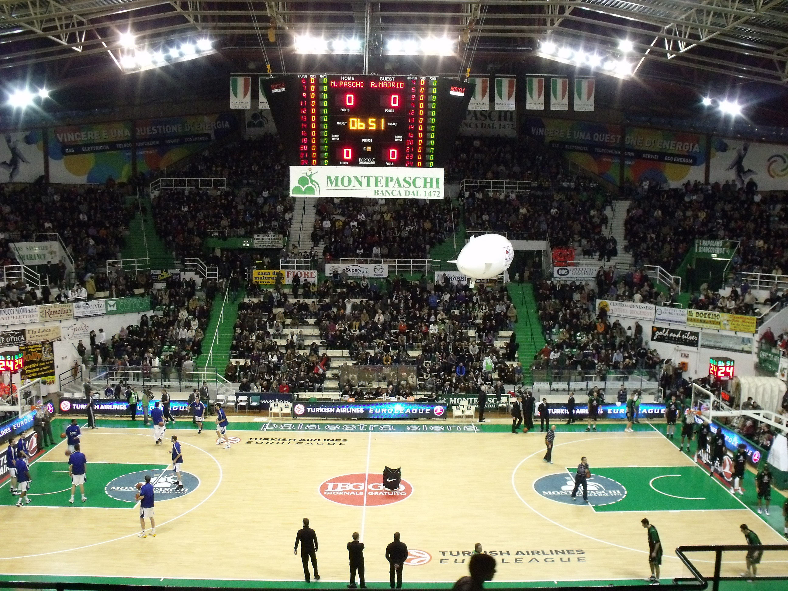 Basketball Stadium Pala Sport Mens Sana in Siena